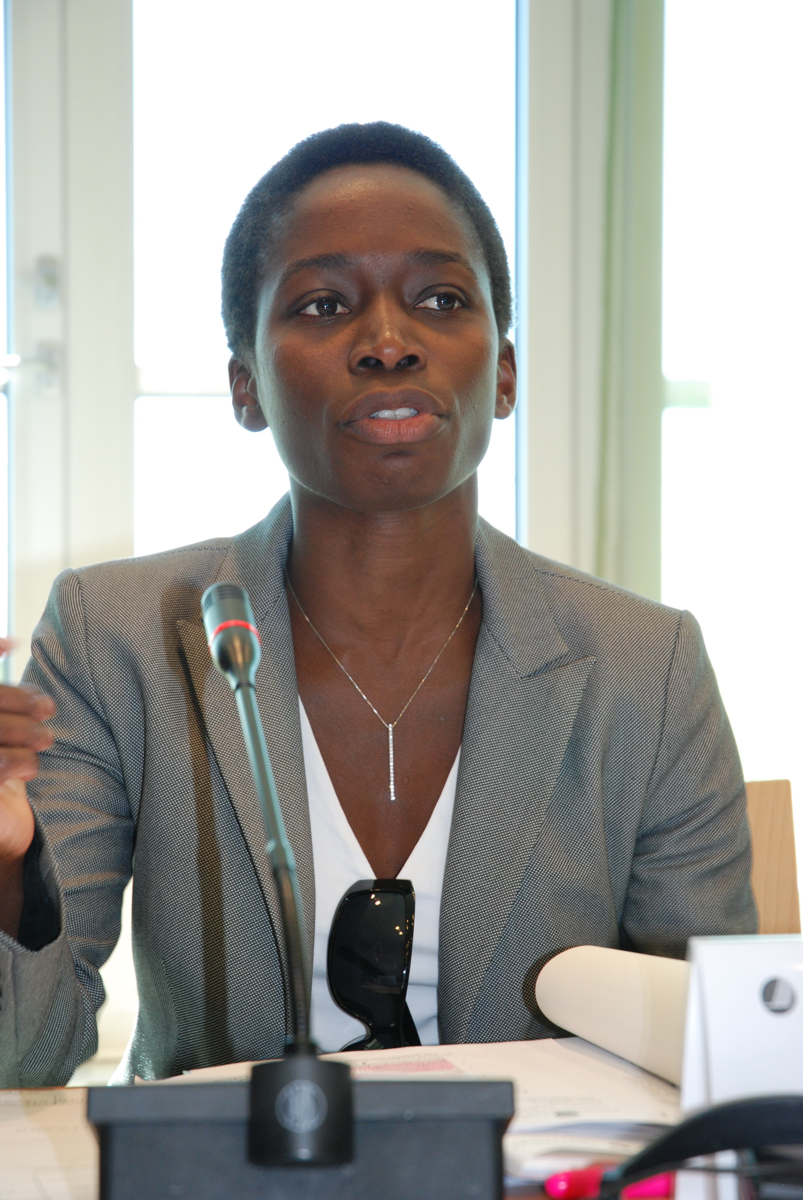 Nyamko Sabuni, Swedish politician